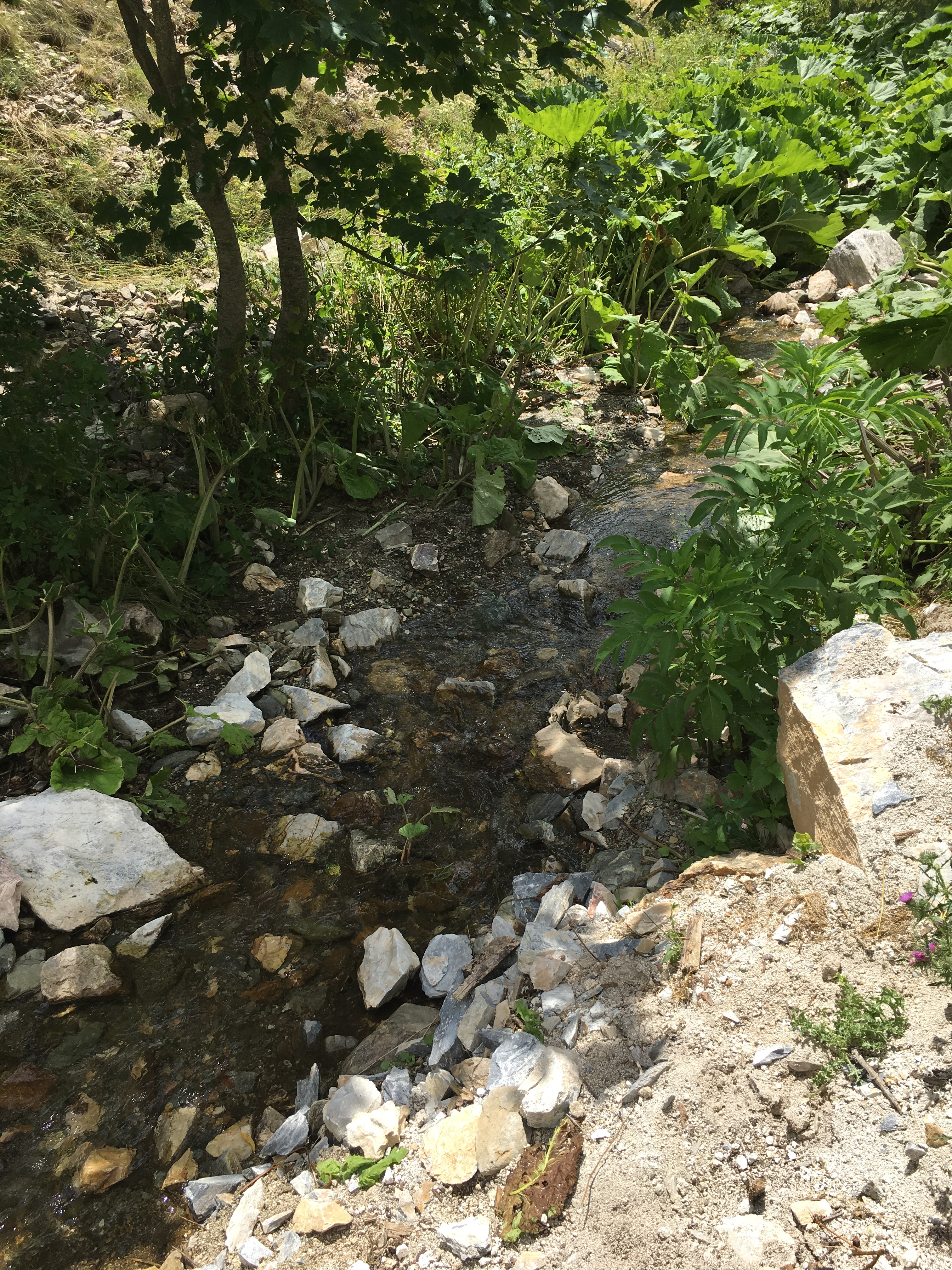 Brodec River in the eponymous village